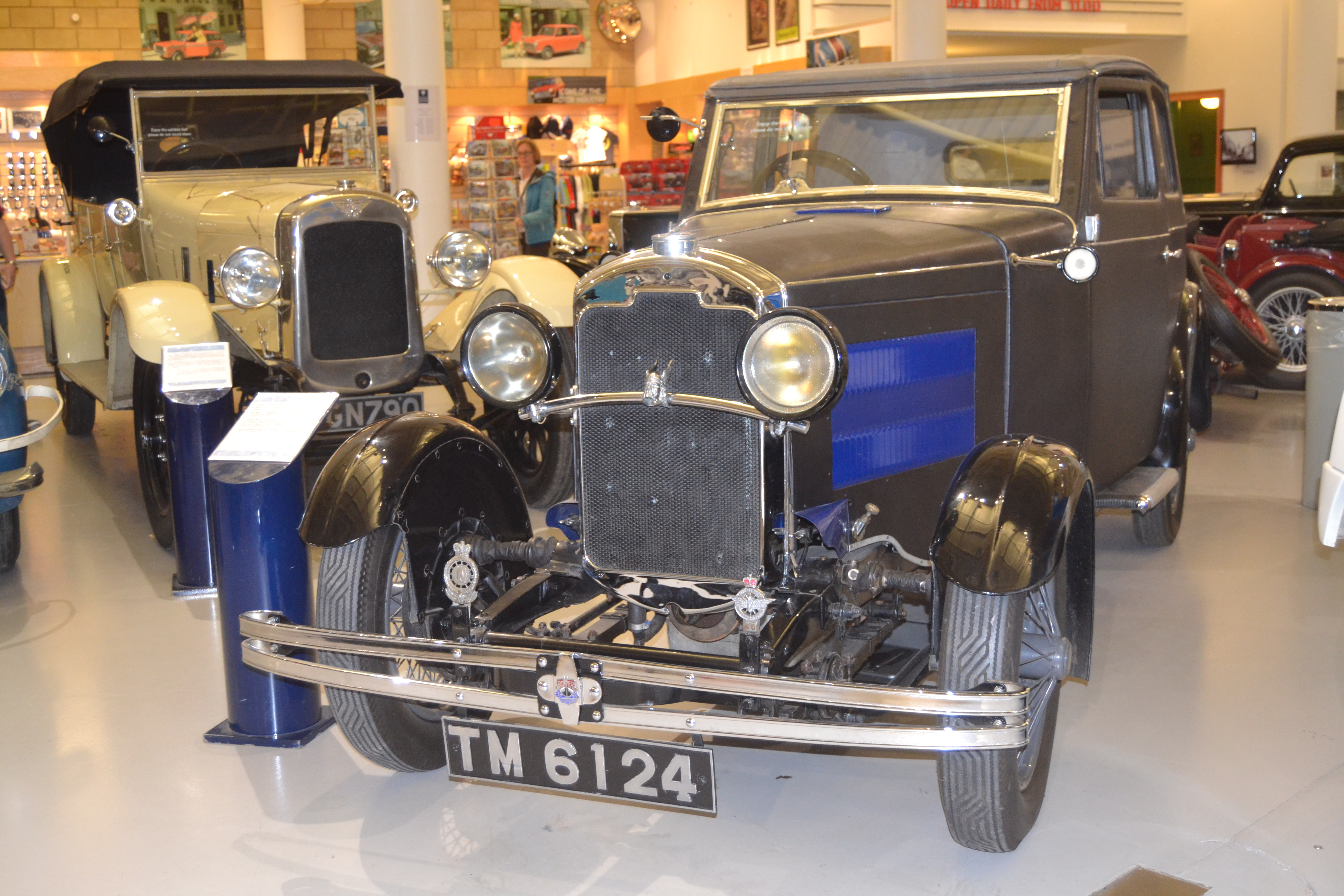 Rover Light Six (1929) with Weymann Fabric Body; Heritage Motor Centre, Gaydon, Warwickshire